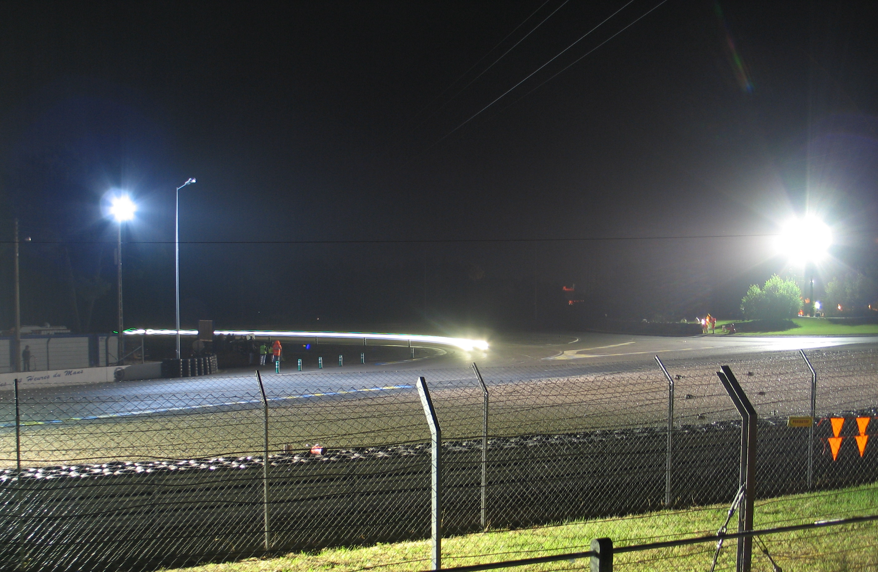 Night at 24 Hours of Le Mans